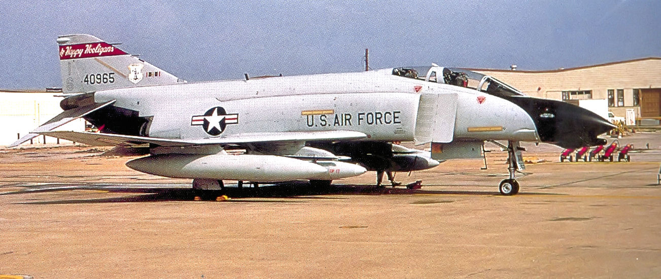 178th Fighter-Interceptor Squadron McDonnell F-4D-26-MC Phantom 64-0965 North Dakota ANG. Painted in ADTAC air defense motif.